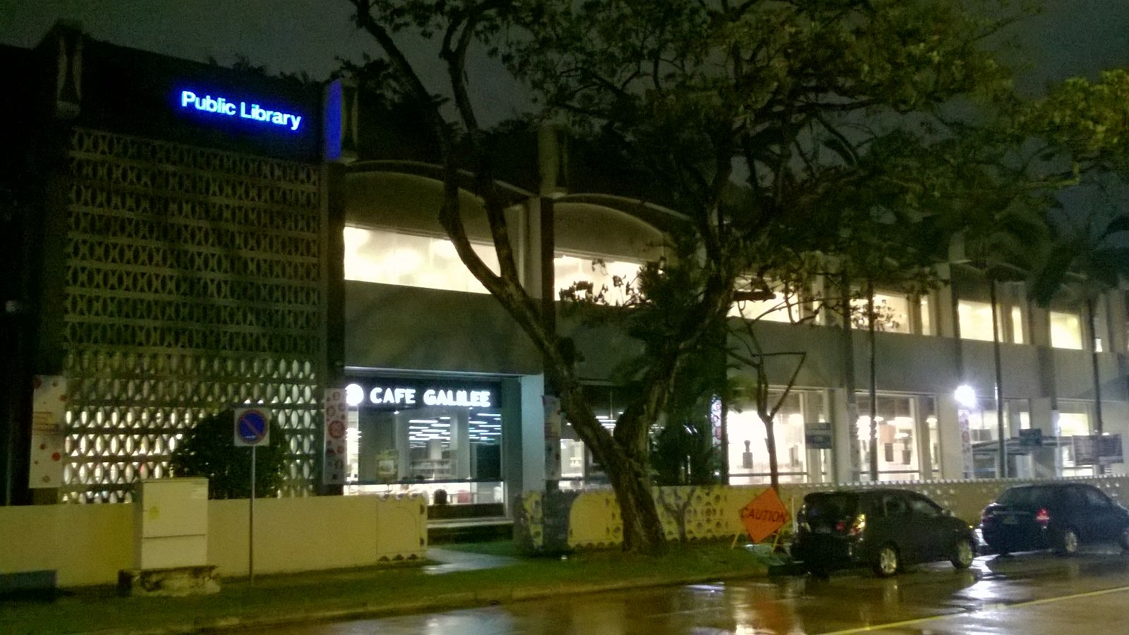 Queenstown Public Library